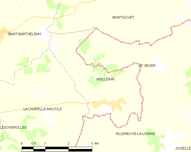 Map of French municipality Meilleray